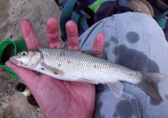 Luciobarbus graellsii hooked in Ombrone river (Tuscany, central Italy). Released after photo.